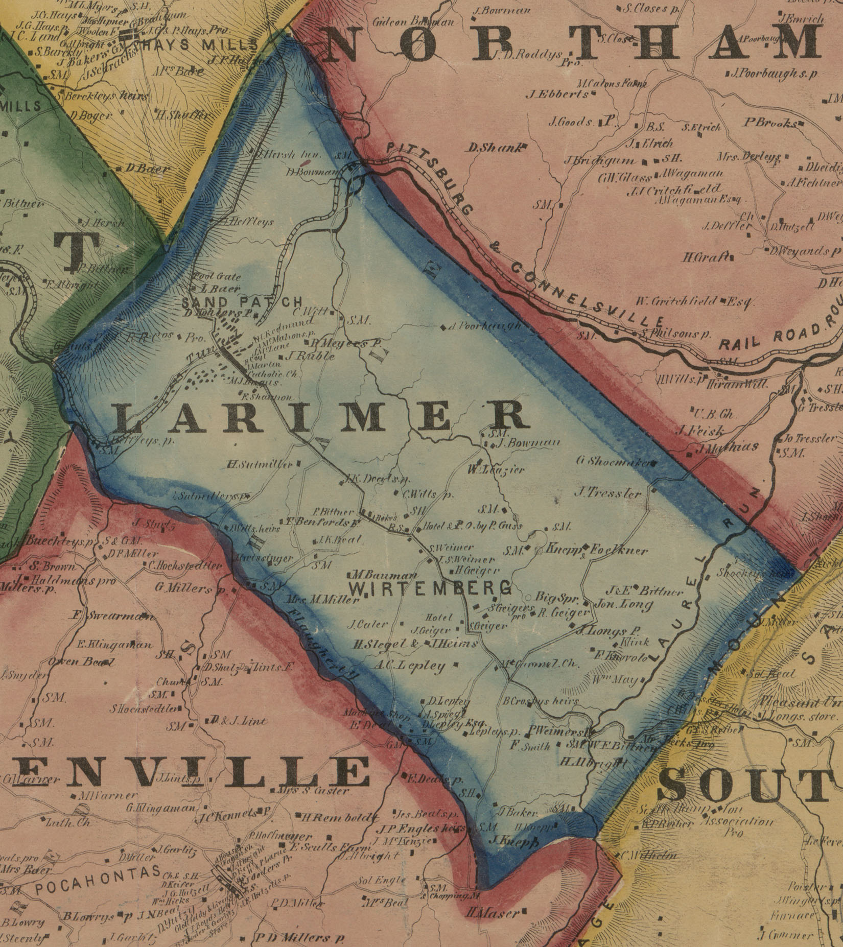 Map of Larimer Township taken from 1860 Edward L. Walker map of Somerset County, Pennsylvania, available at the Library of Congress website